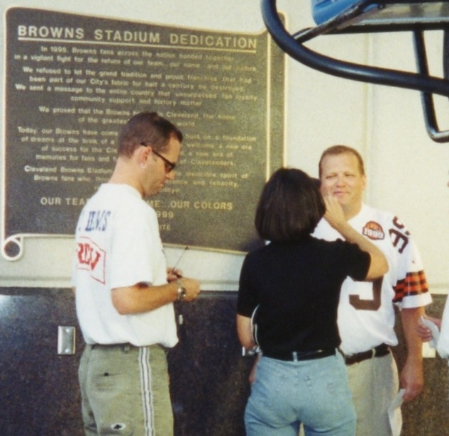 Drew Carey at the dedication of the new Cleveland Browns Stadium in Cleveland, Ohio, September, 1999.